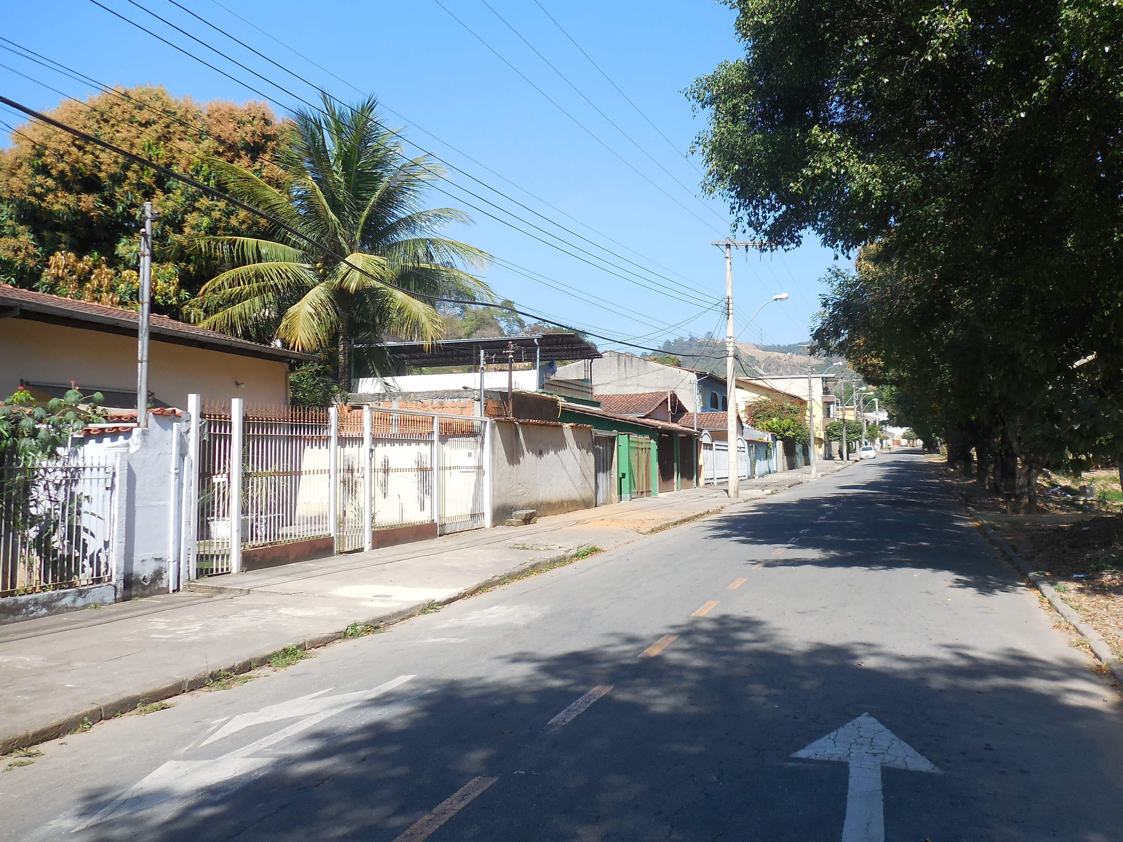 The 95 street in the João XXIII neighborhood, in Timóteo, Minas Gerais, Brazil.